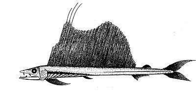 Alepisaurus ferox long-nosed lancetfish